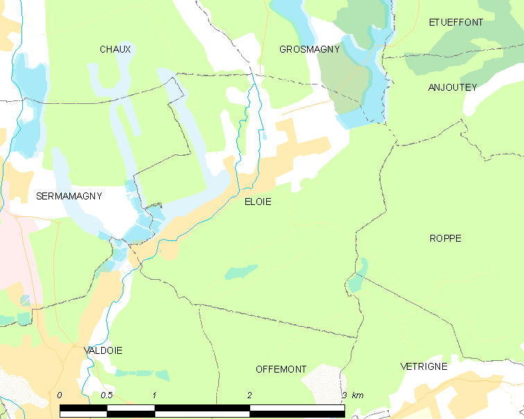 Map of French municipality Éloie